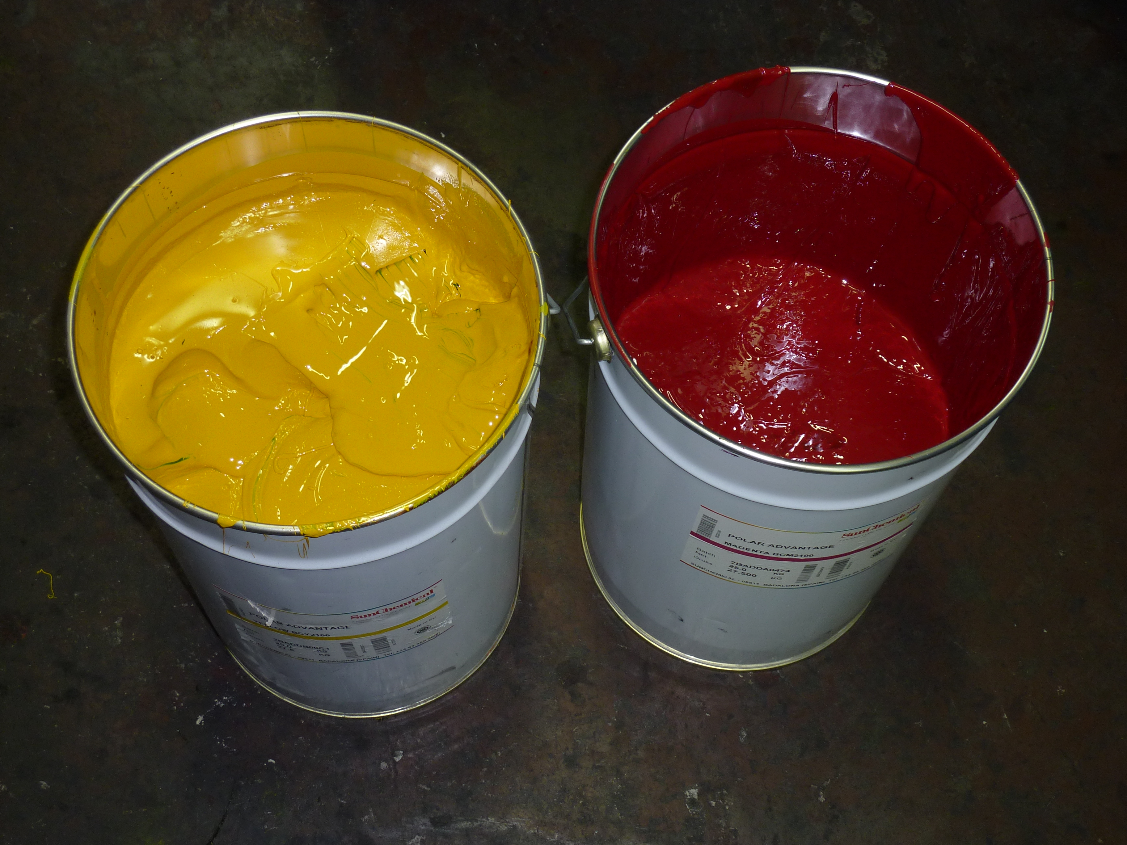 Yellow & Magenta coldset printing inks in 25kg containers